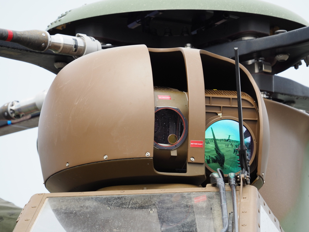 Sagem STRIX observation and sighting system on a french Tiger helicopter, Fassberg Air Base 2019